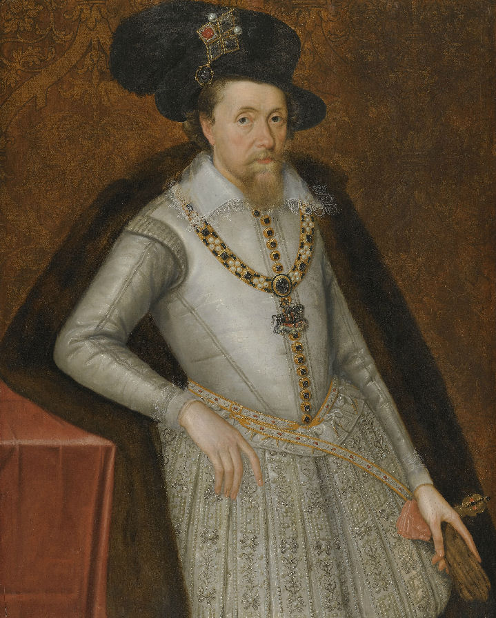 James I of England, 113 x 87.5 cm, oil on panel. One of several variants, this one formerly owned by the Earls of Haddington.